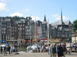 Honfleur harbour (personal photograph)